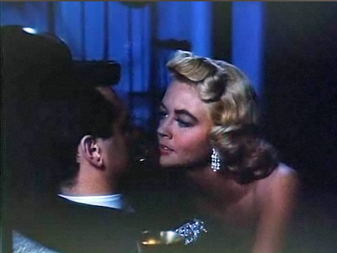 Screenshot of Rock Hudson and Dorothy Malone from the trailer for the film Written on the Wind